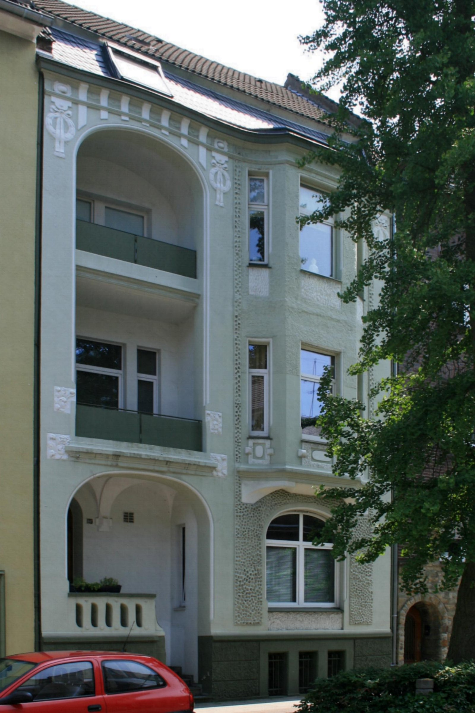 Cultural heritage monument No. B 085 in Mönchengladbach